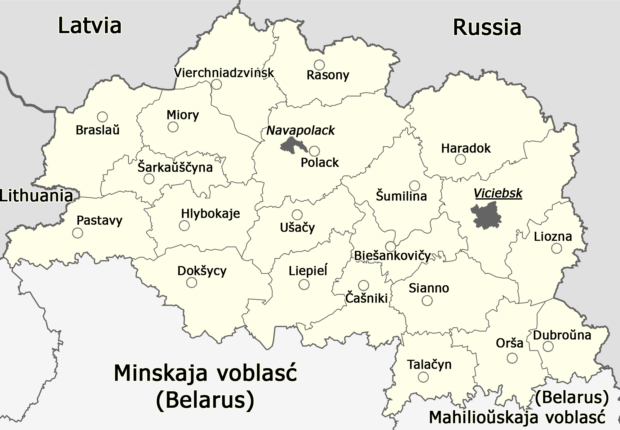 Map of Viciebsk Region